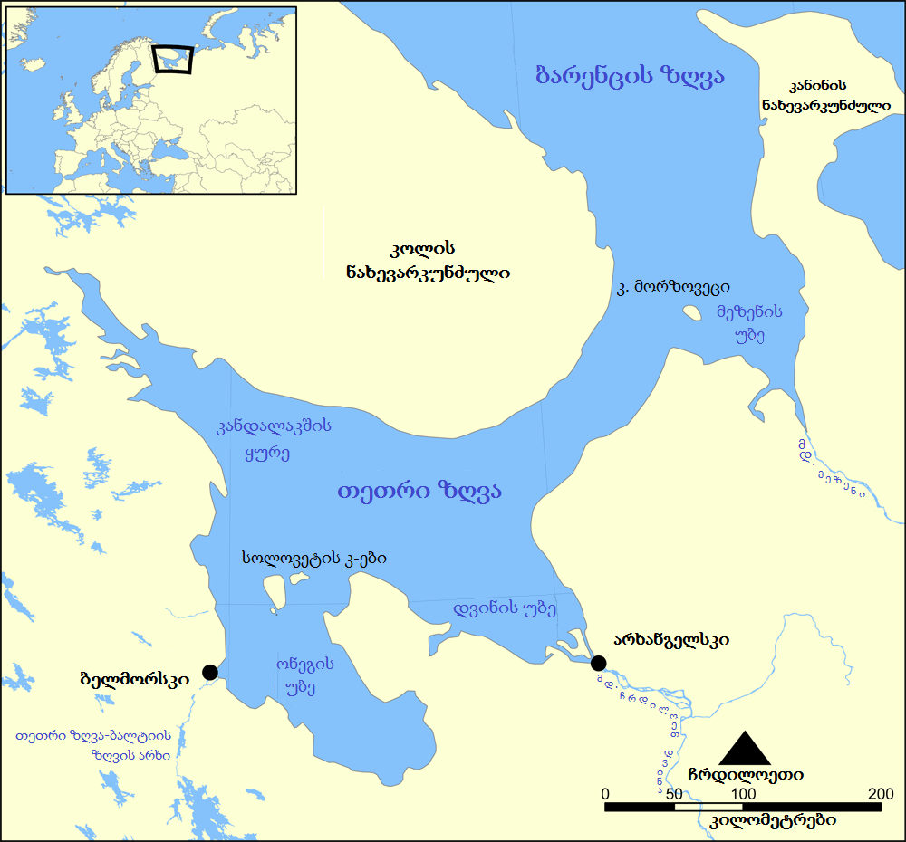 map of white sea in georgian